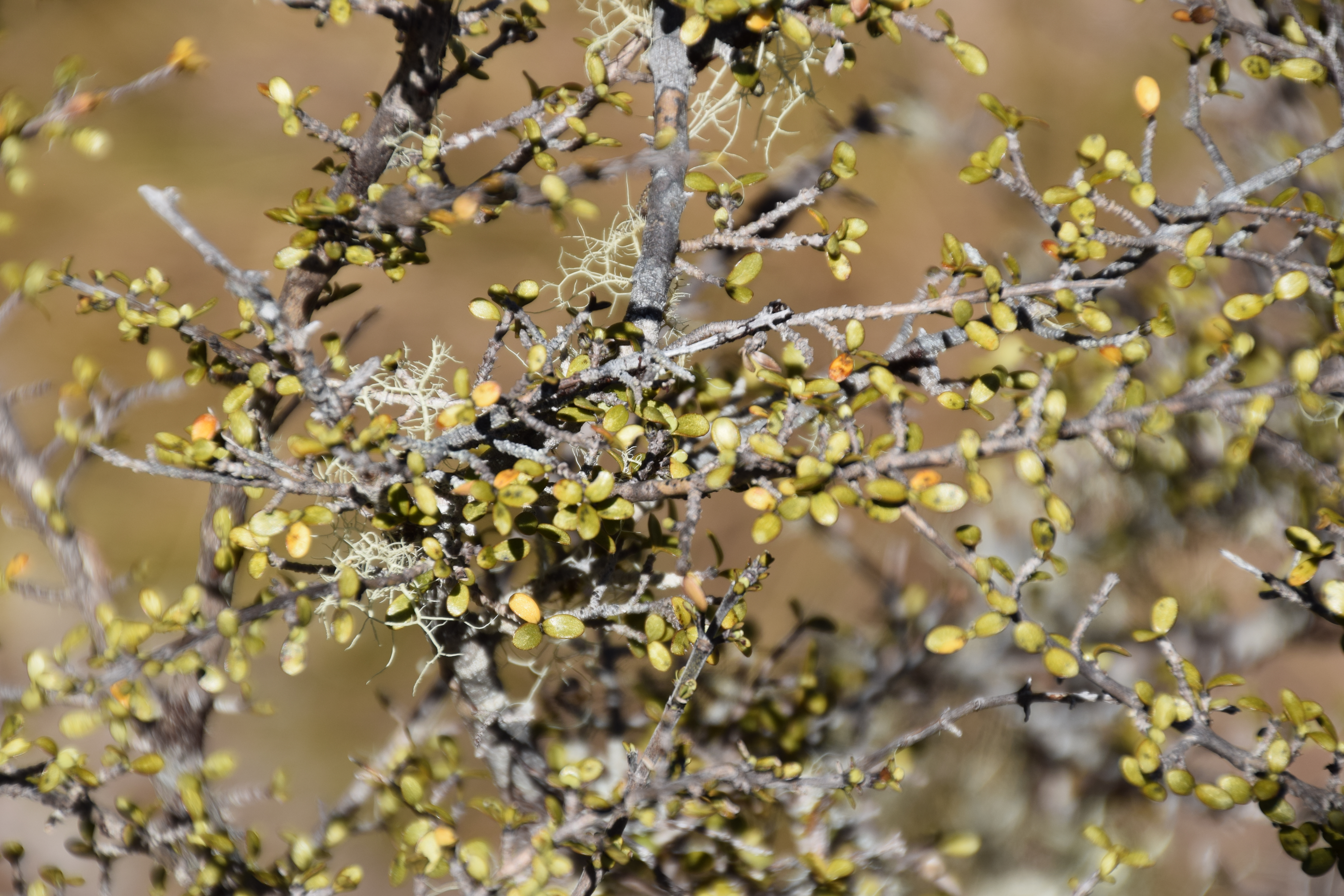 Brachyglottis bellidioides in Lewis Pass Scenic Reserve, South Island of New Zealand